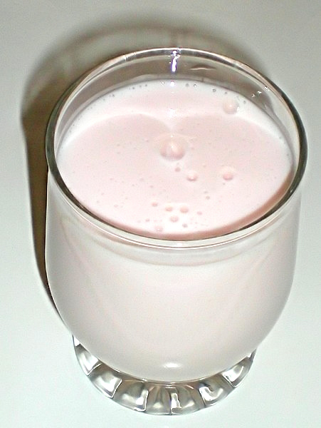 Yoghurt drink